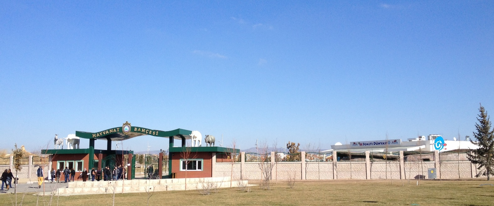 Eskişehir Hayvanat Bahçesi bahçesinde bulunan Eti Su Altı Dünyası